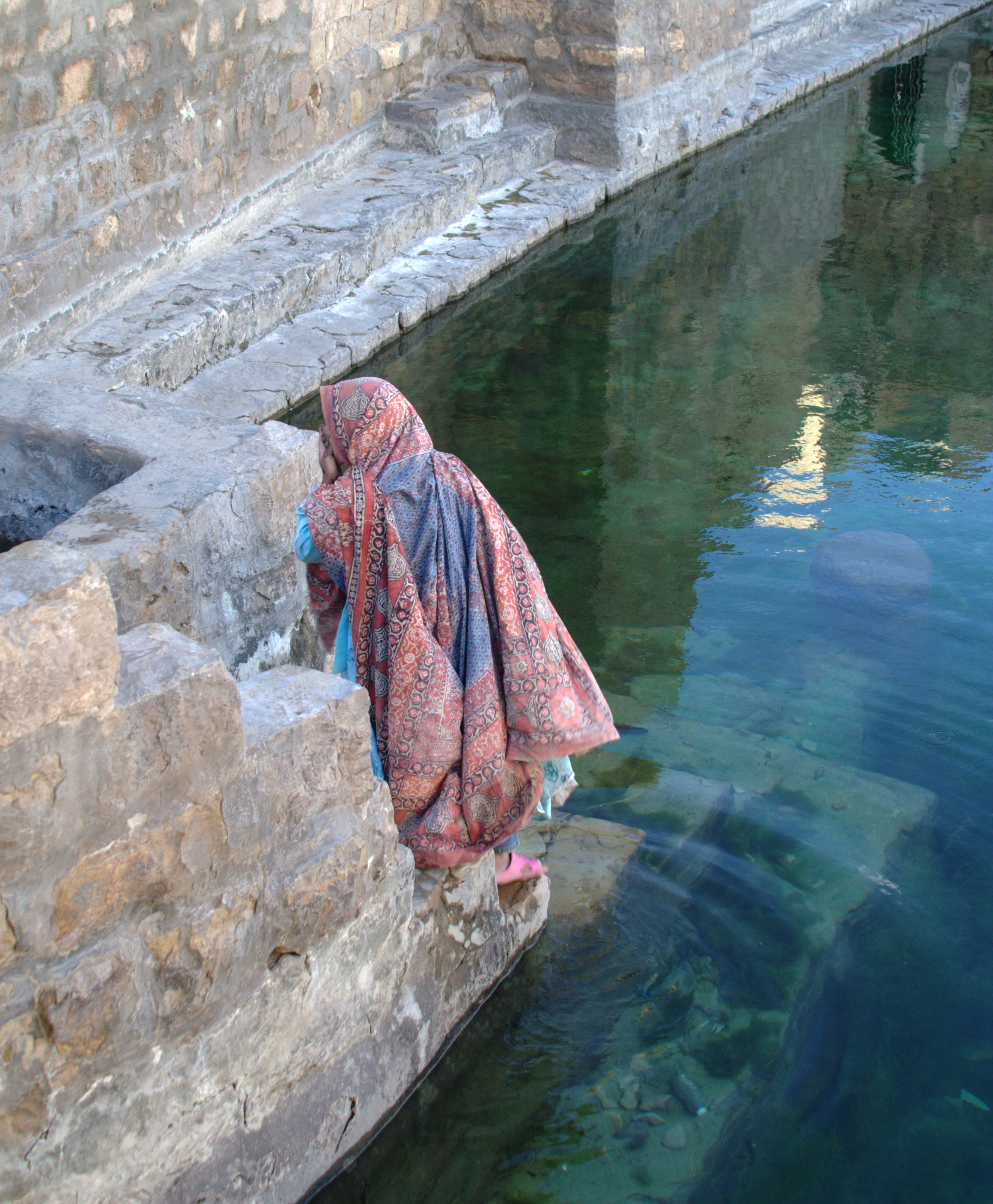 Woman reaches for water from a cistern reservior — in Kawkaban city, northern Yemen.